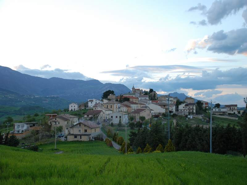 pietranico - panorama gran sasso